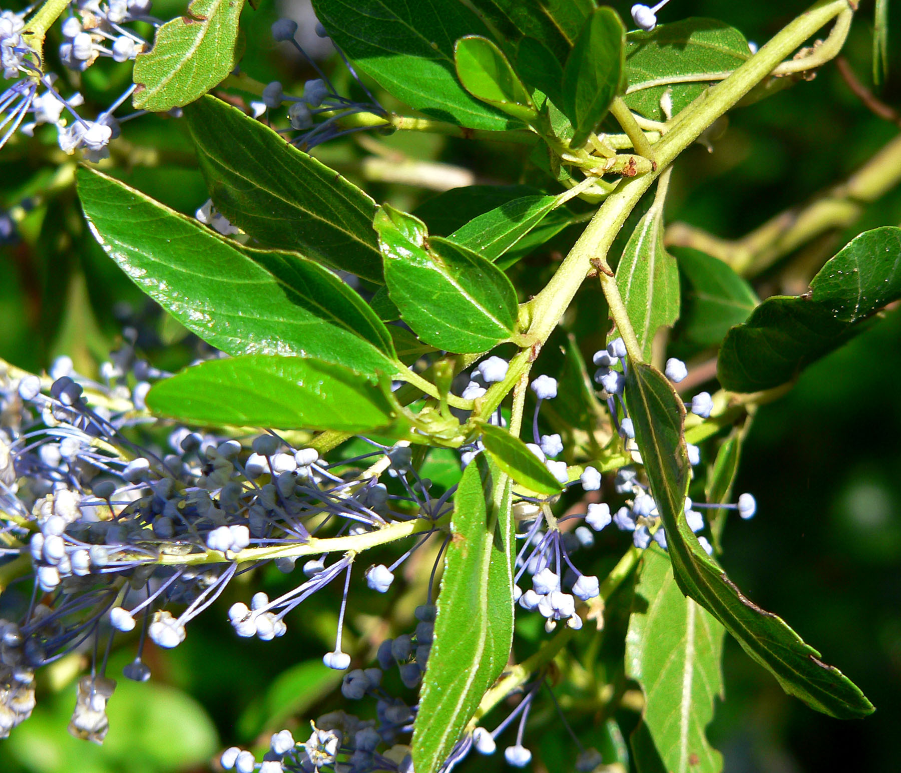 Photo of Ceanothus cyaneus at the Regional Parks Botanic Garden, Berkeley, California